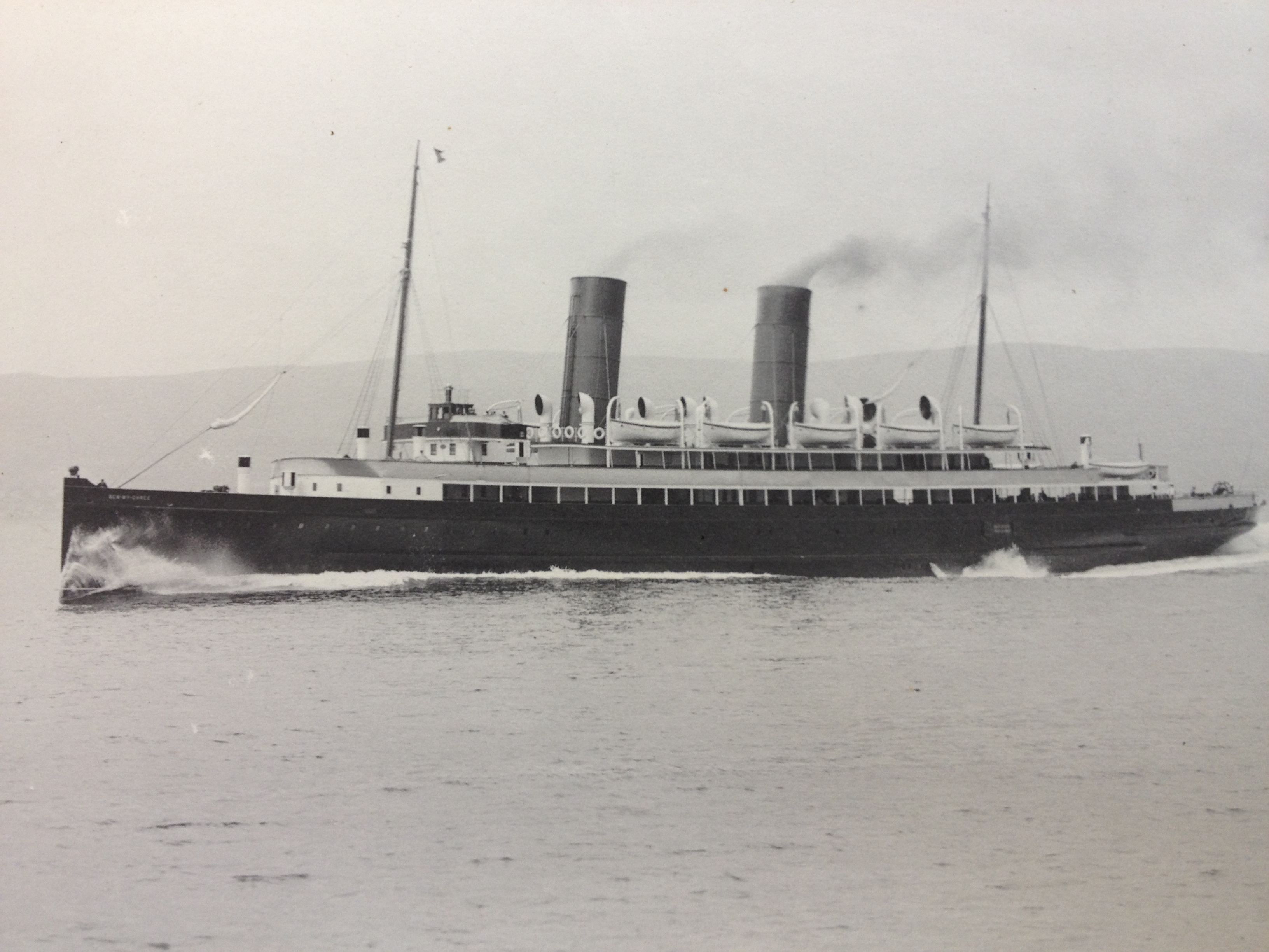 Isle of Man Steam Packet Company steamer, Ben-my-Chree (III) pictured during her sea trials.